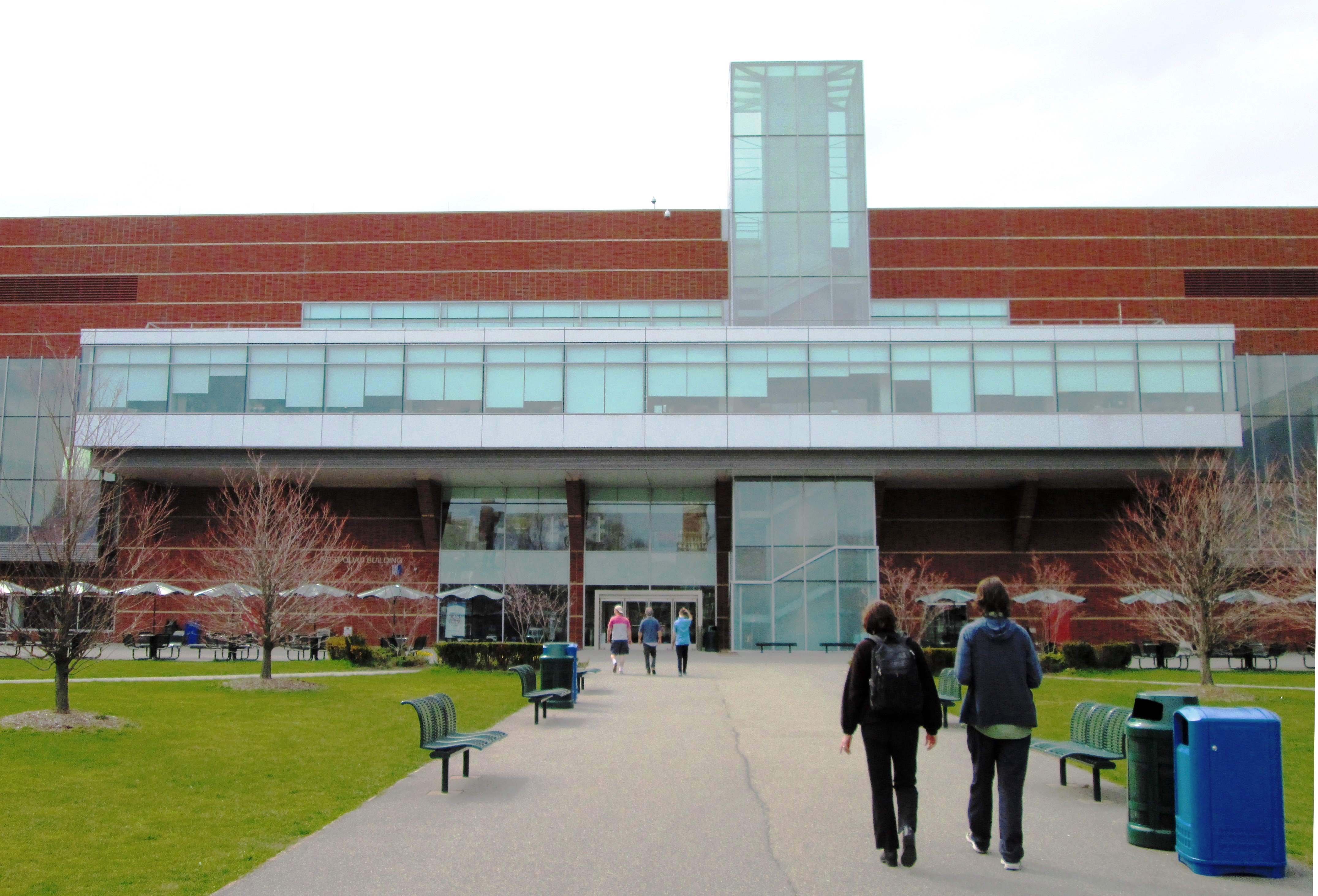 Brooklyn College is a senior college of the City University of New York, located in the Midwood neighborhood of Brooklyn, New York City. The origin of Brooklyn College occurred in 1910 with the establishment of an extension division of the City College for Teachers. The school then began offer evening classes for first-year male college students in 1917. In 1930 by the New York City Board of Higher Education, the College authorized the combination of the Downtown Brooklyn branches of Hunter College – at that time a women's college – and the City College of New York – a men's college – both of which had established been in 1926. With the merger of these branches, Brooklyn College became the first public coeducational liberal arts college in New York City. The college's 26-acre (110,000 m2) campus is known for its beauty, and is often regarded as "the poor man's Harvard" because of its low tuition and reputation for respectable academics. The master designer of the original Georgian style campus, now known as the "East Quad", was Randolph Evans.